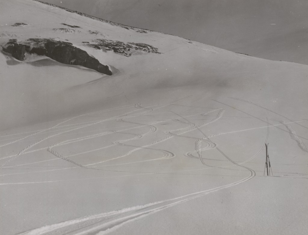 Campbell-Drury, A. (Alan) Title from label on verso.; Part of collection: Antarctica, Heard Island.; "L11909"--From label on verso.; Condition: Glued to cardboard.; Also available in an electronic version via the Internet at: .au/nla.pic-vn3765913. "Black Volcanic sand blown from the sea shore discolours a section of the snow. In the back-ground is a precipitous cliff, which was later used as a ski run when covered by snow."--Lable on verso. Persistent URL .au/nla.pic-vn3765913